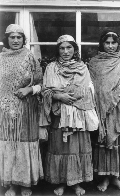 Warsaw during World War II: Gypsy women.